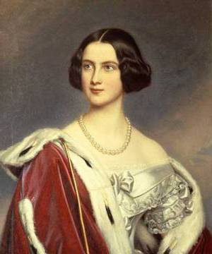 young Marie of Prussia (1825-1889)